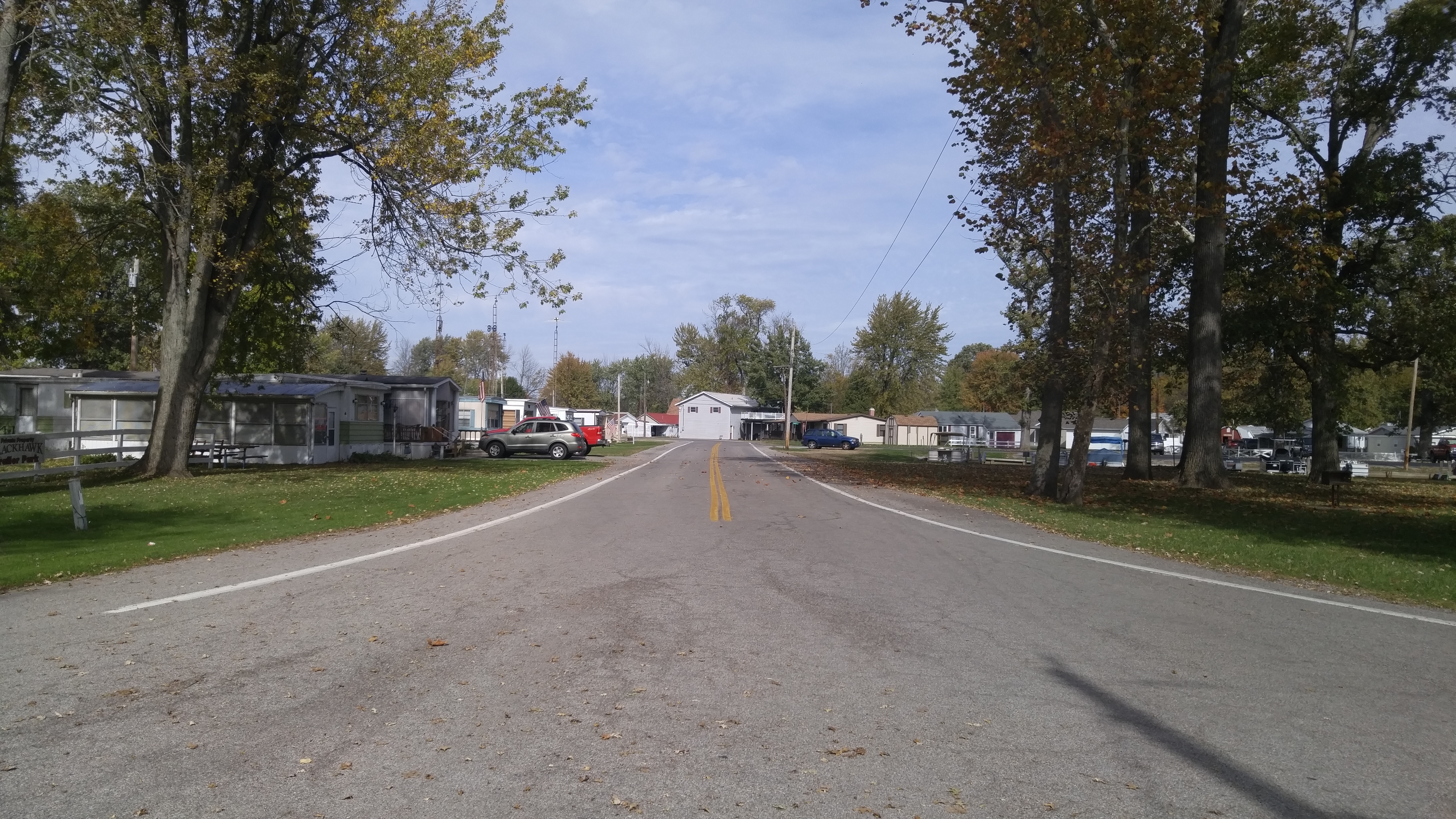 The eastern terminus of Ohio State Route 365 looking north.